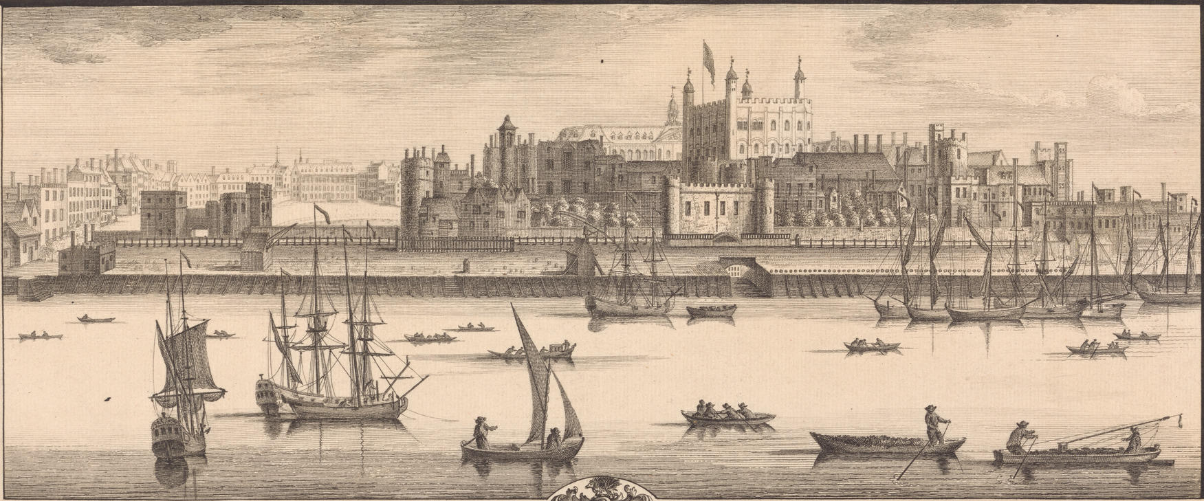 "The South View of the Tower of London" engraving, published in 1737. Courtesy of the British Museum.